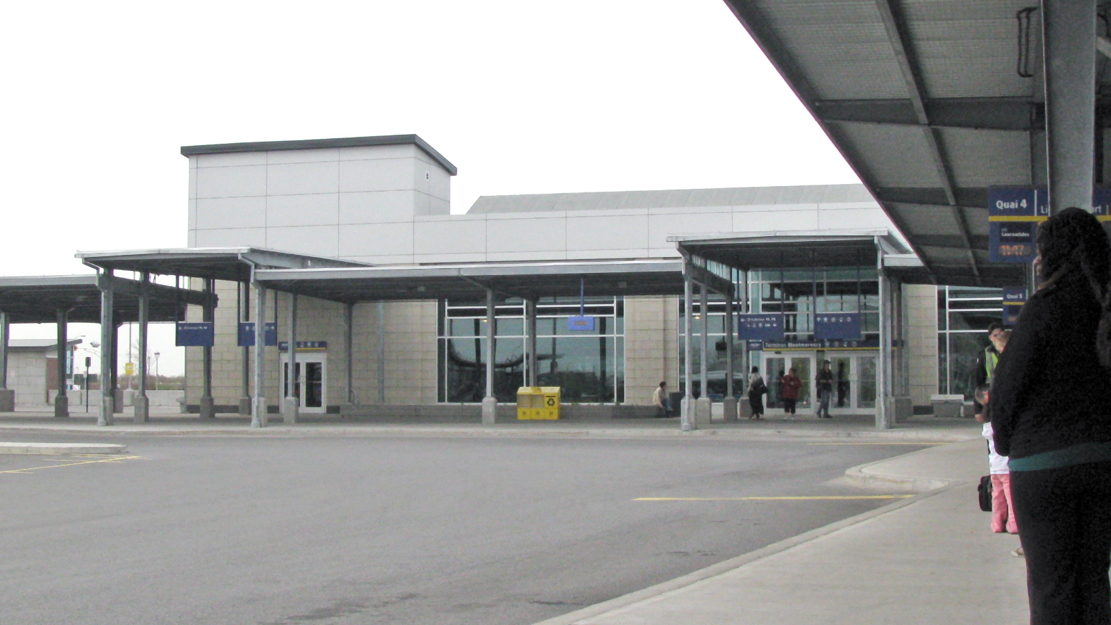 Quai du terminus d'autobus Montmorency à la station Montmorency du métro de Montréal. Le terminus est situé à Laval (Québec).